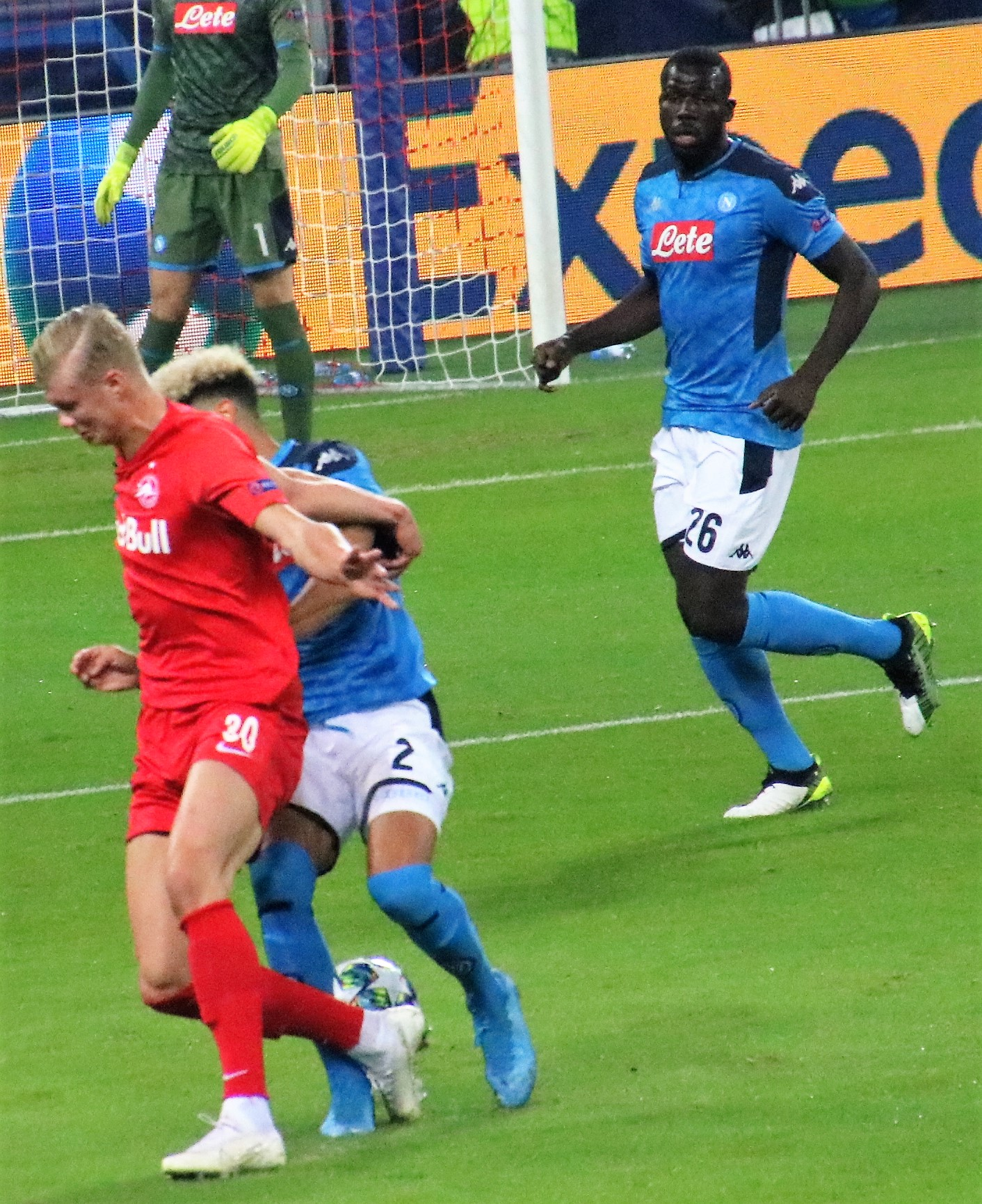 3rd round UEFA Champions League